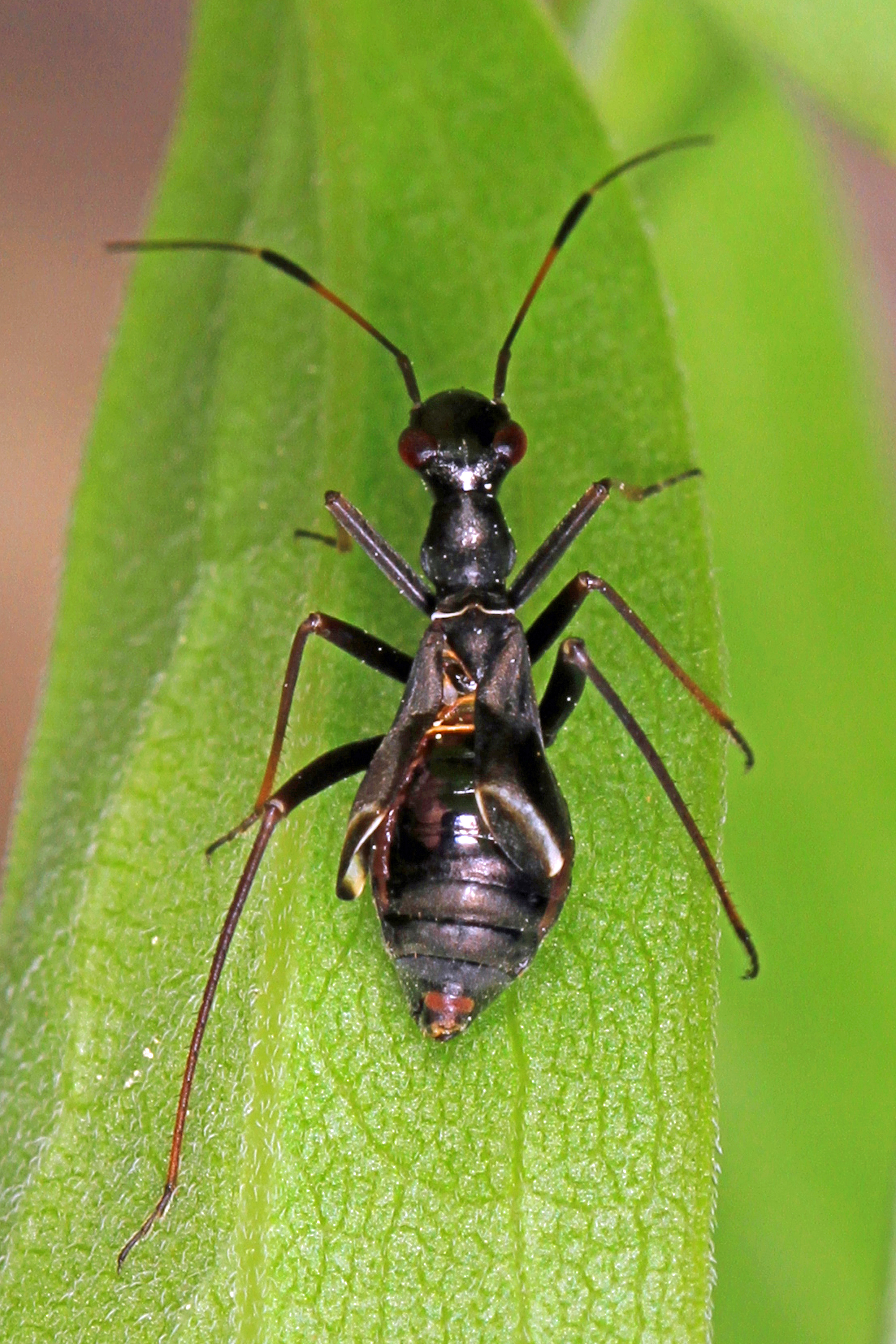 Ant-mimic Plant Bug - Dacerla inflata, Yuba Meadow, Sierra County, California.